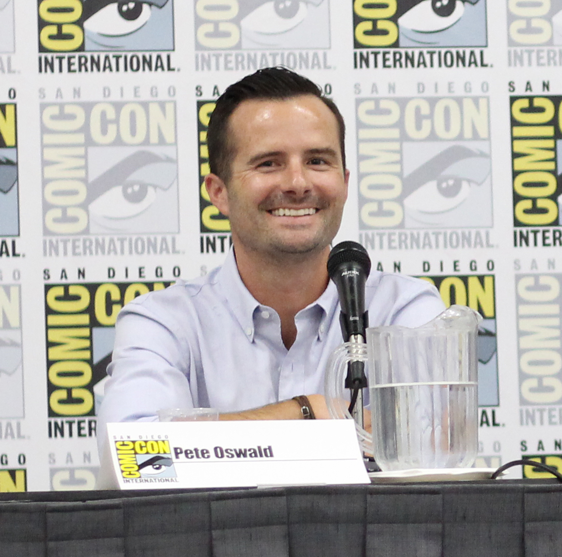 Photograph of Pete Oswald at Comic Con 2016